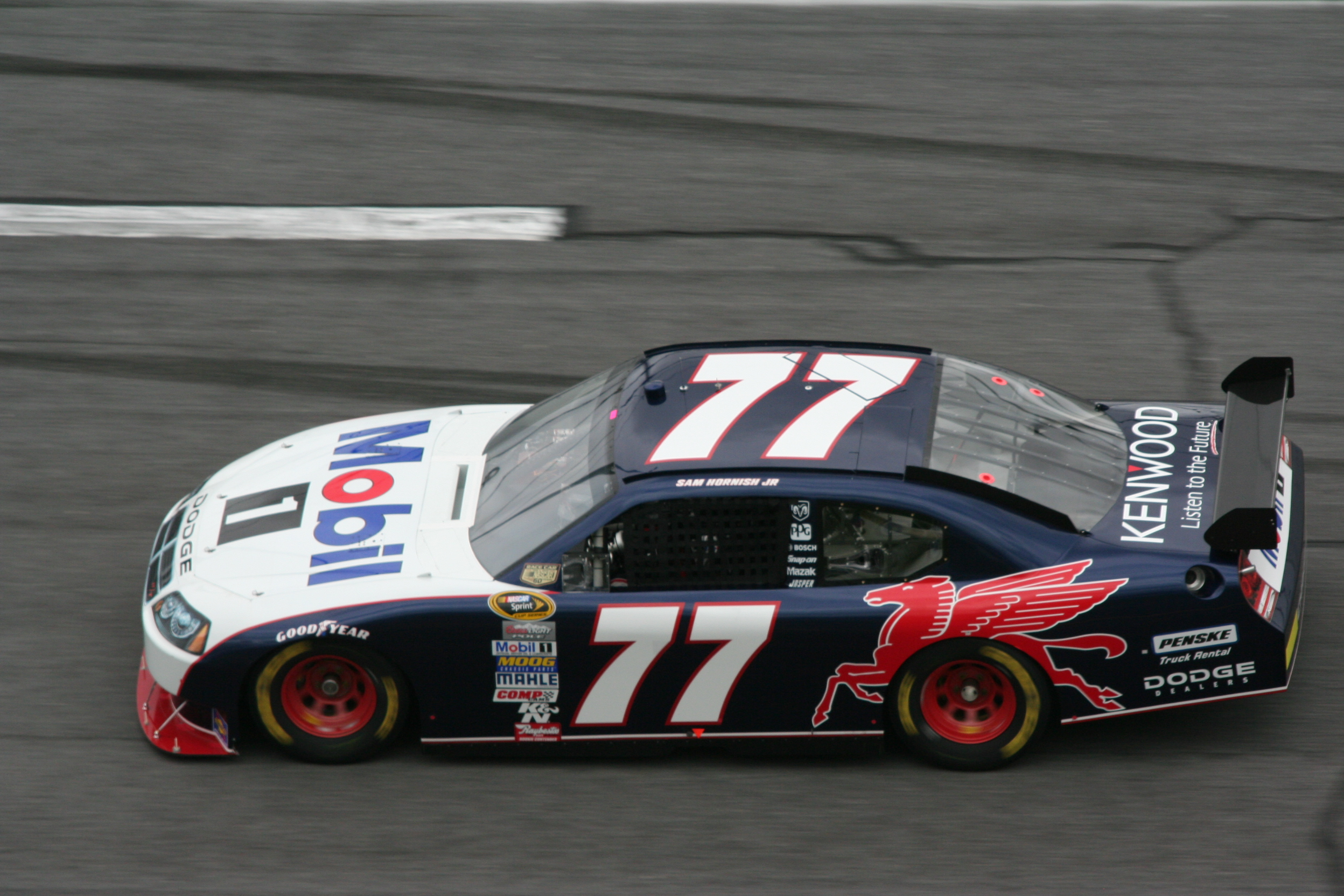 Shot by The Daredevil at Daytona during Speedweeks 2008Sam Hornish, Jr. Mobil 1 Dodge Charger